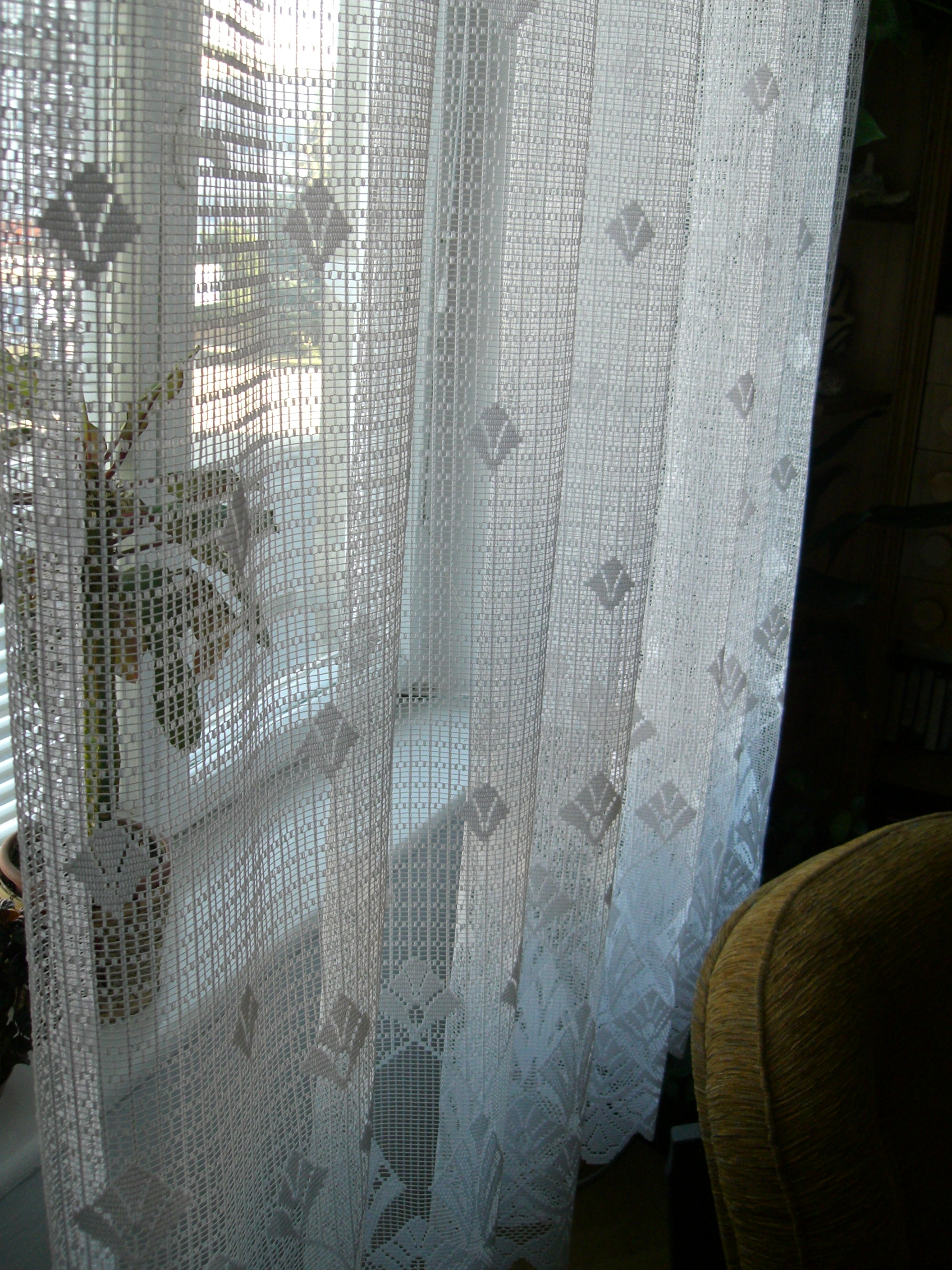 Curtain on the windows in flat (Czech republic)